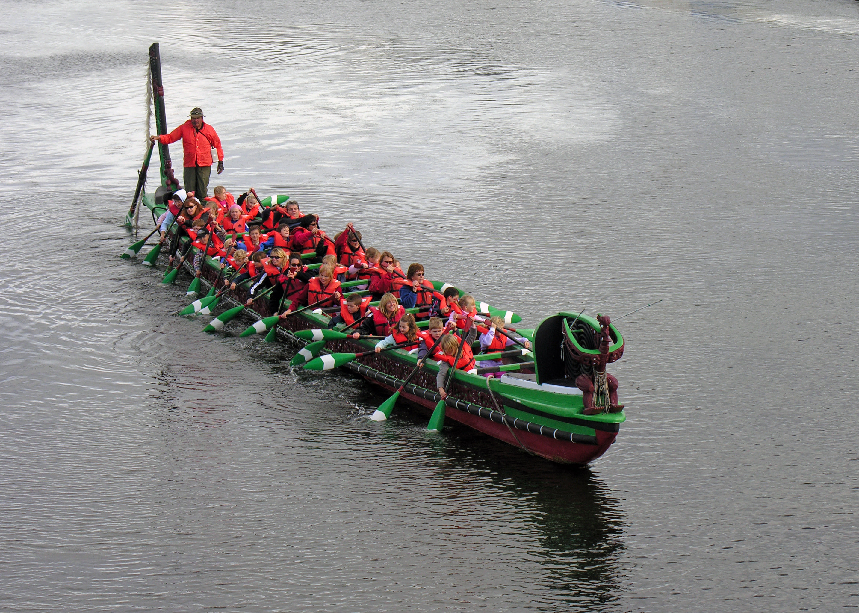 Waka paddling class on Clive River. Hawkes Bay, New Zealand.